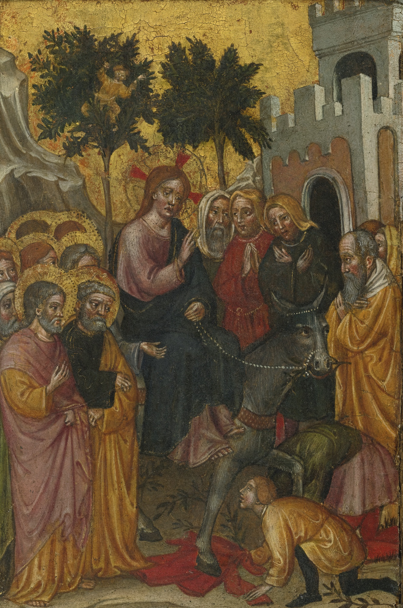 Entry of Christ Into Jerusalem